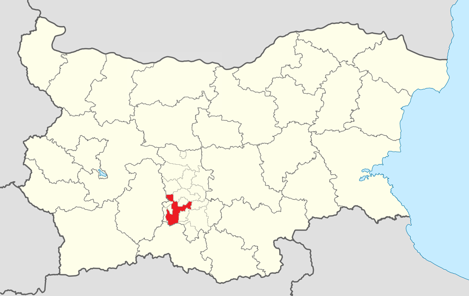 Location map of Rodopi Municipality within Bulgaria and Plovdiv province